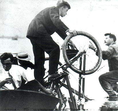 A group of men, including Harriet Quimby's flight instructor (right), examine her downed monoplane following her tragic accident. The plane had flipped over onto its back after landing in Dorchester Bay.